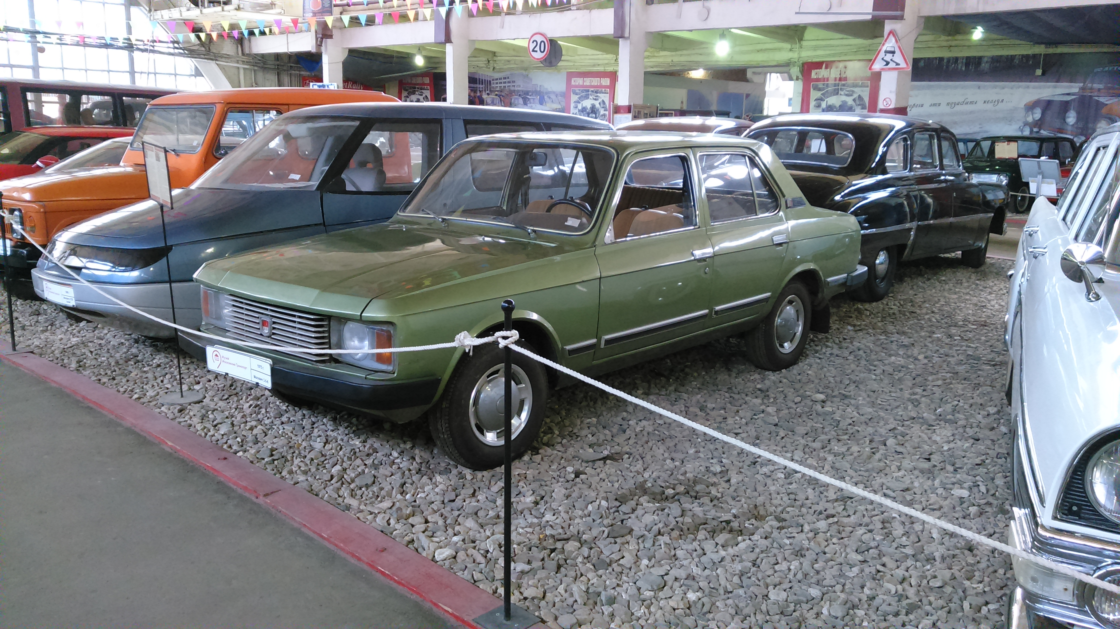 Moskvitch-3-5-6 prototype circa 1973-75.